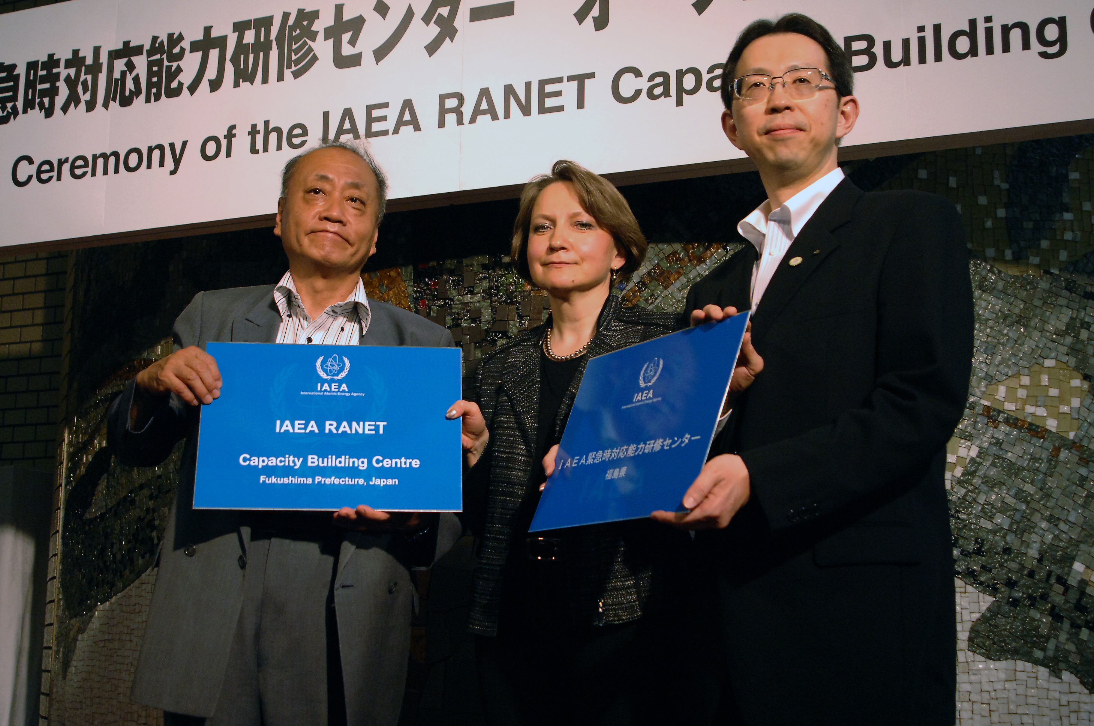 Elena Buglova, Head of the Incident and Emergency Centre, International Atomic Energy Agency, Shin Maruo, Ambassador for Science and Technology Cooperation, and Masao Uchibori, Deputy Governor of Fukushima Prefecture, held up signs of the IAEA RANET Capacity Building Centre in Fukushima City, Fukushima Prefecture on May 27, 2013.